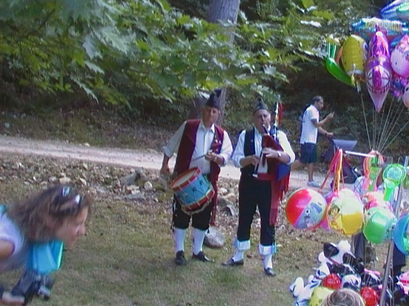 Ramón el tamboriteru y Maximino'l gaiteru, miembros de l'Asociación de la Canción y el Folclor Valle del Nalón nel Día d'Asturies n'Amieva